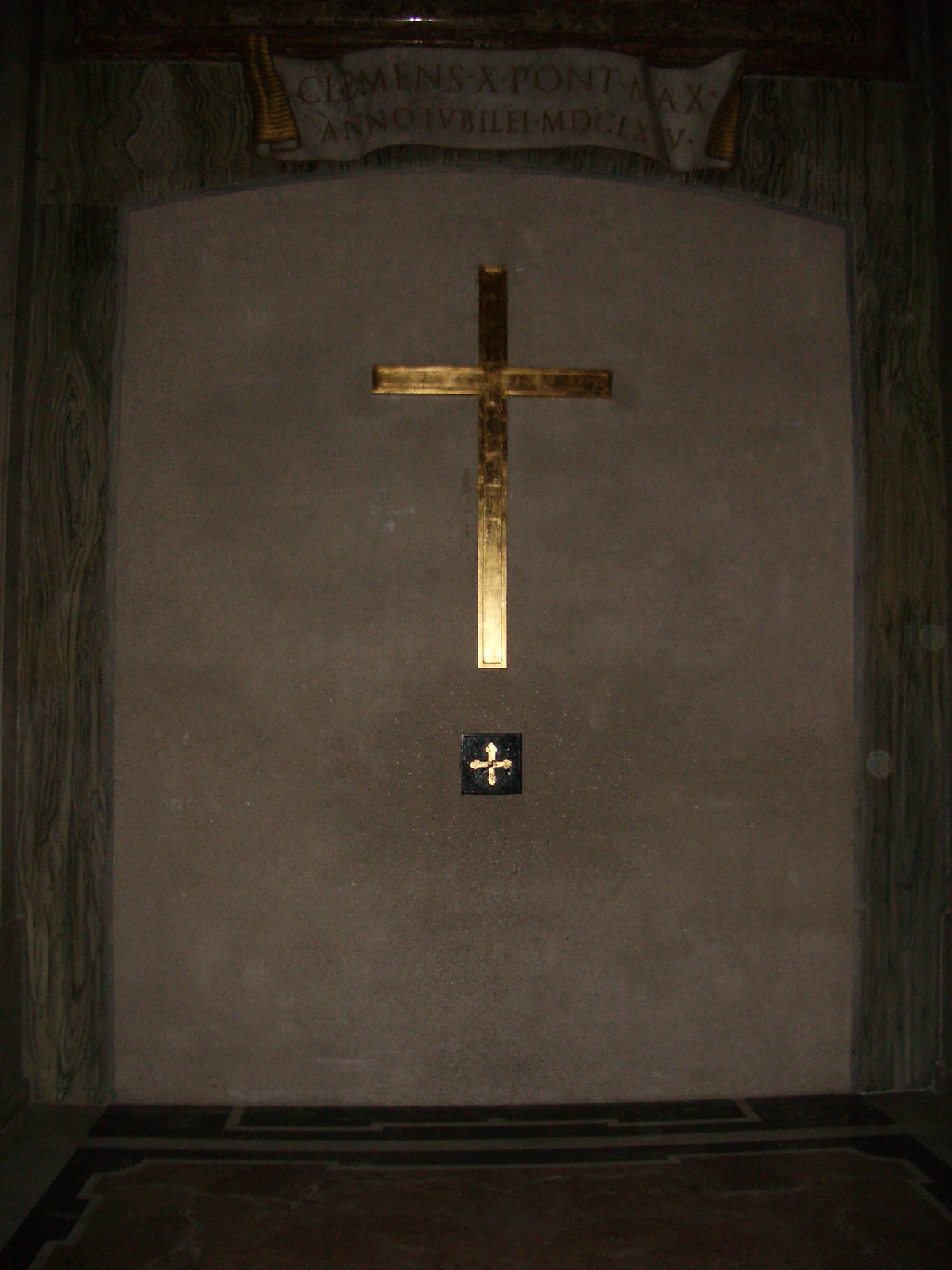 Rear of the "Holy Door", the Northern most entrance at St. Peter's Basilica in the Vatican. Picture taken 8/13/2006 by Paul Bruder